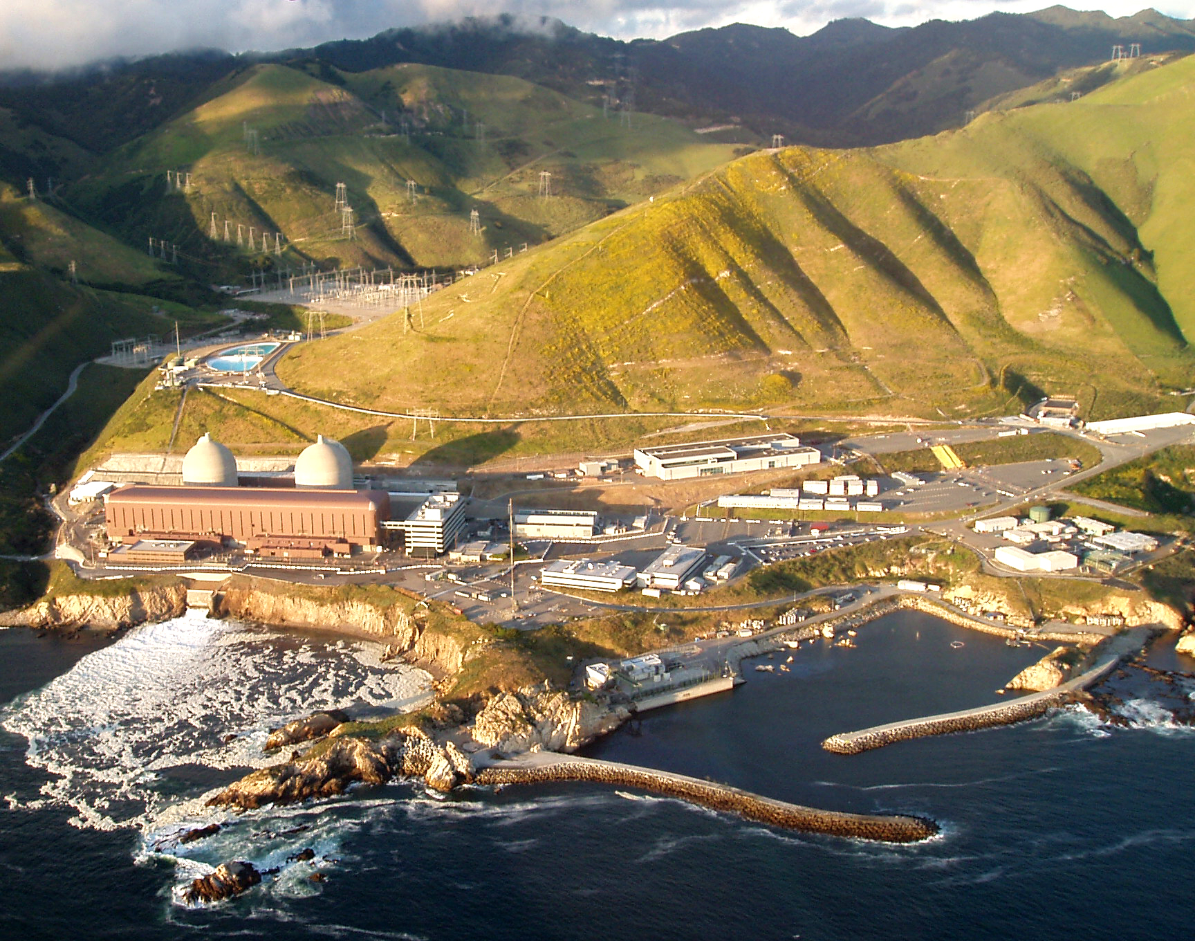 The nuclear fueled Diablo Canyon Power Plant — in San Luis Obispo County, California.